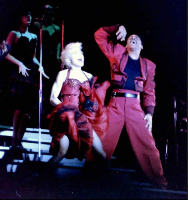 Wembley Stadium Londen Engeland juli '87